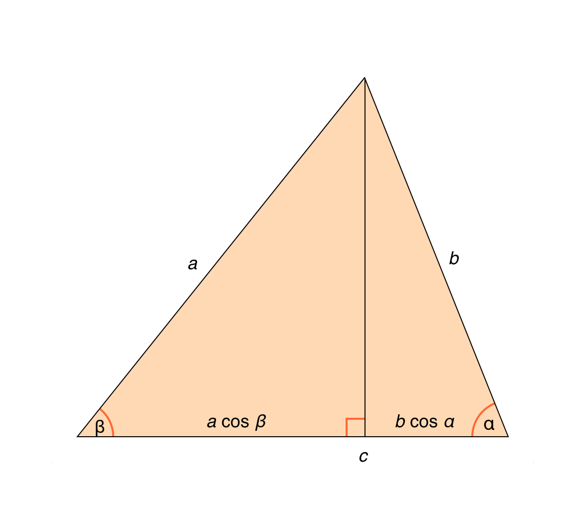 1st. Law of cosine